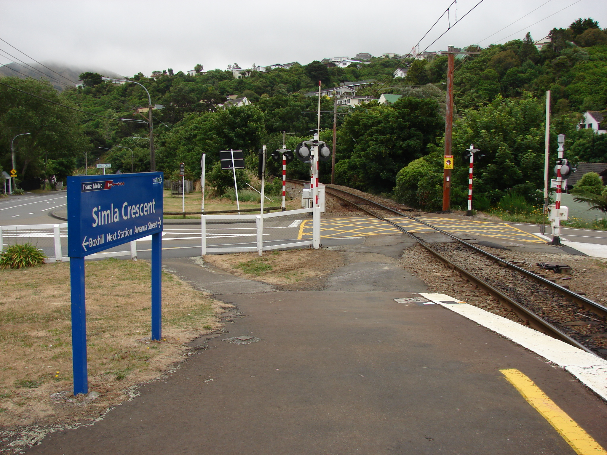 Simla Crescent level crossing at the southern end of Simla Crescent railway station. Photographed by Matthew25187 on 2007-12-17.